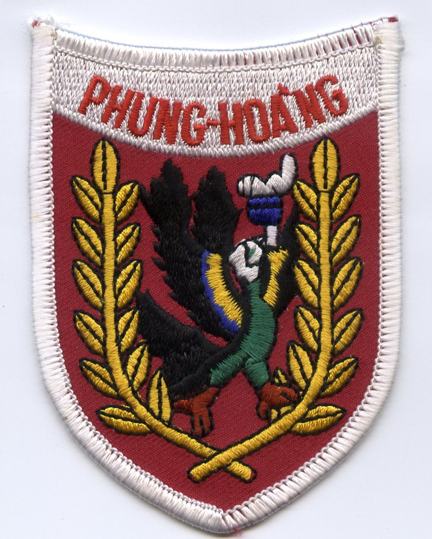 Original unissued patch for the Phoenix Program.